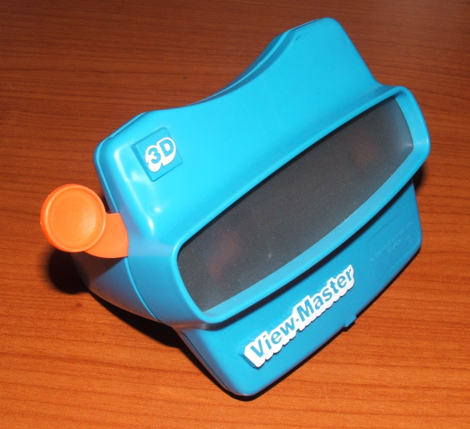 View-Master Model L